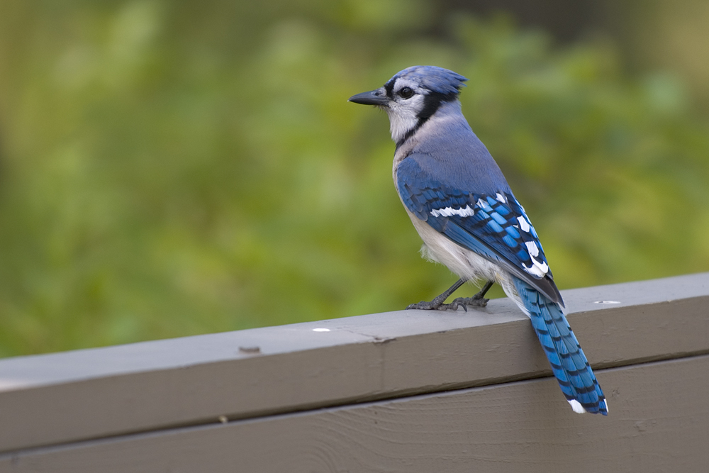 Shot in Minnesota. Image of a Blue Jay. Copyright © 2004-2006 April King, aka Marumari, donated to Wikipedia under the GFDL.